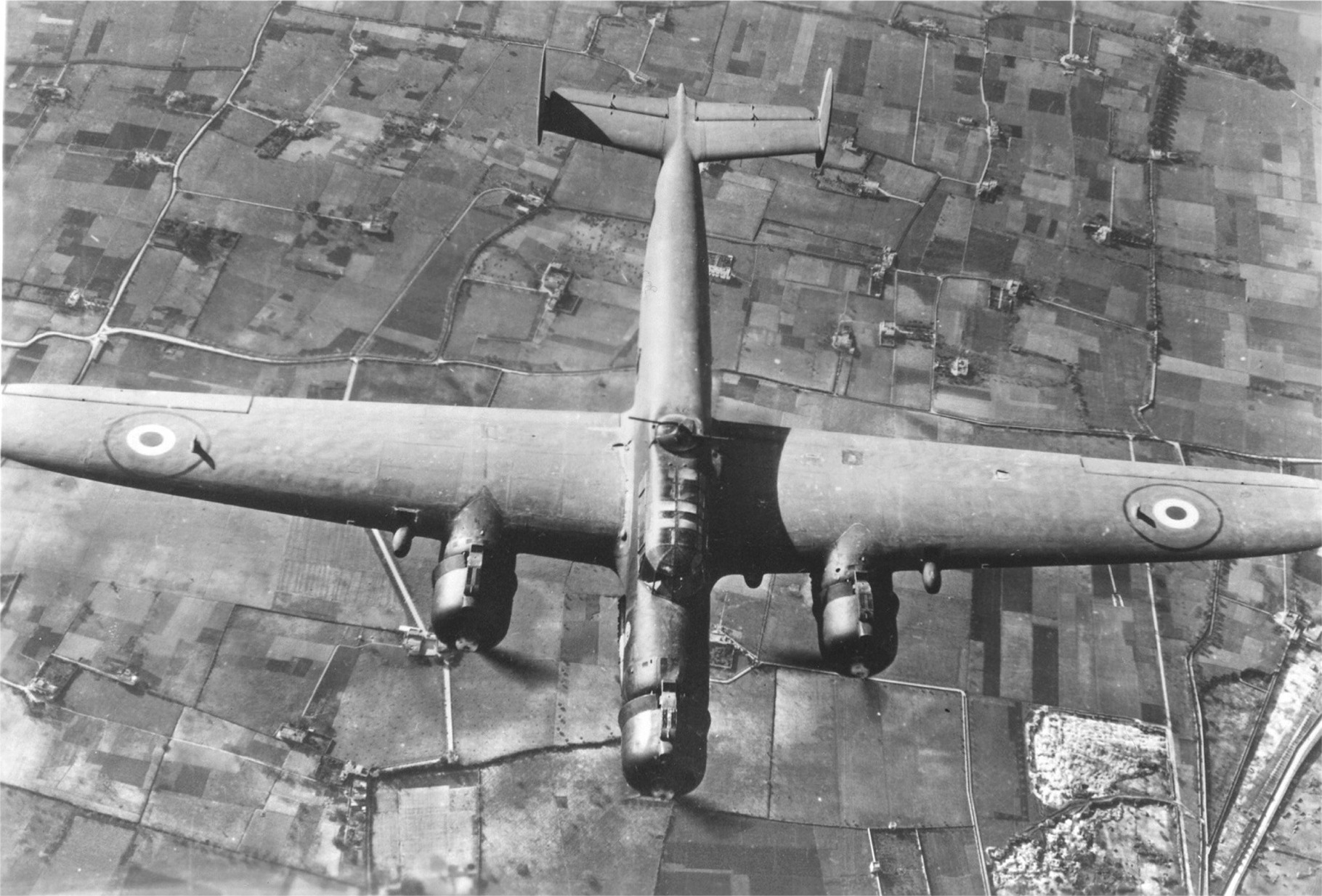 A CANT Z.1007 bis bomber of the Italian Co-Belligerant Air Force photographed over Southern Italy in late 1944.